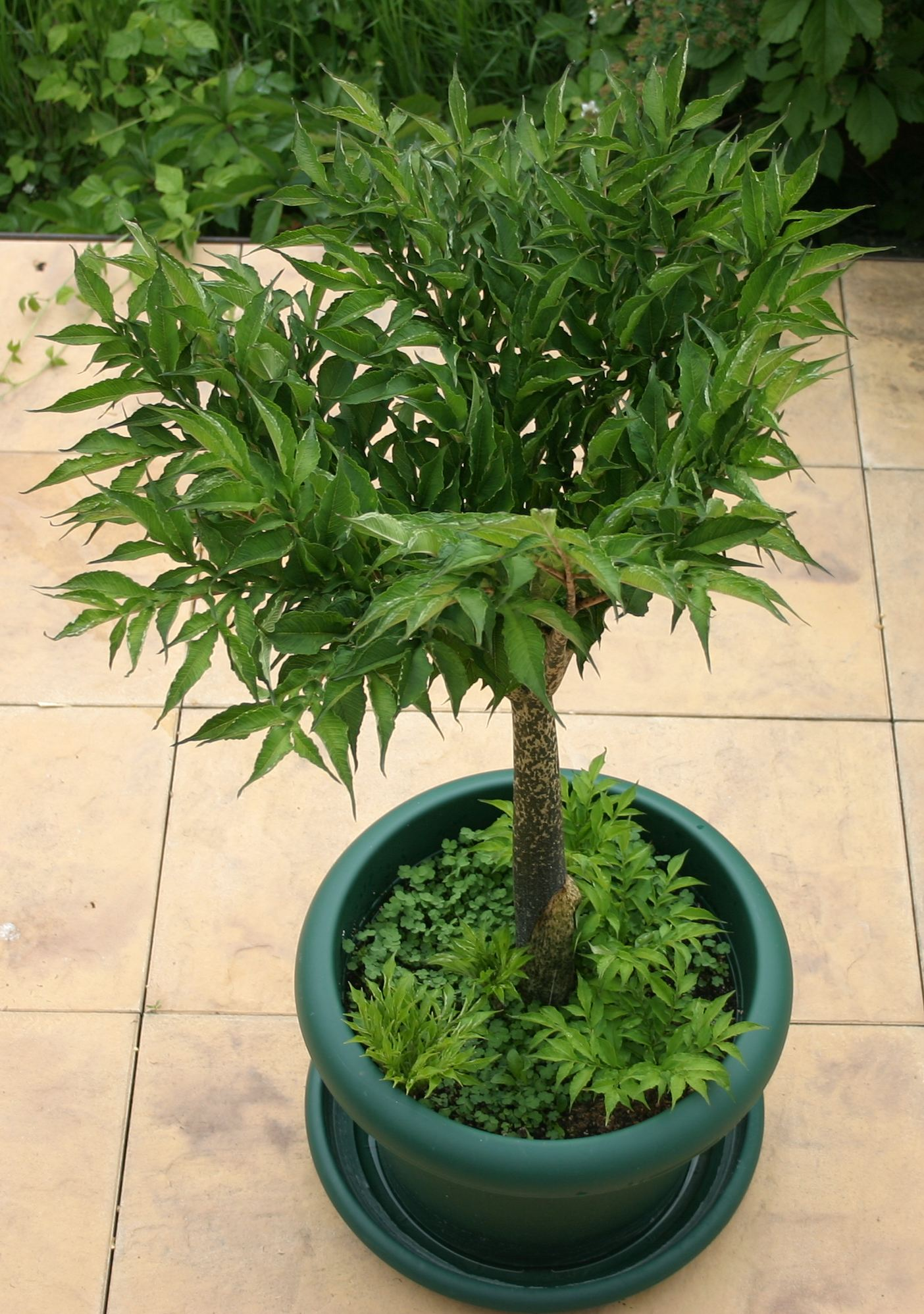 Amorphophallus konjac with not fully unfolded crown